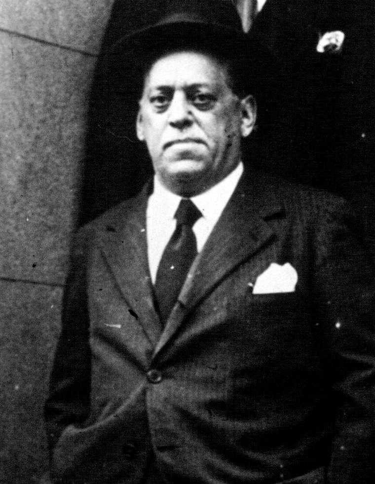 Picture of General José Sanjurjo Sacanell